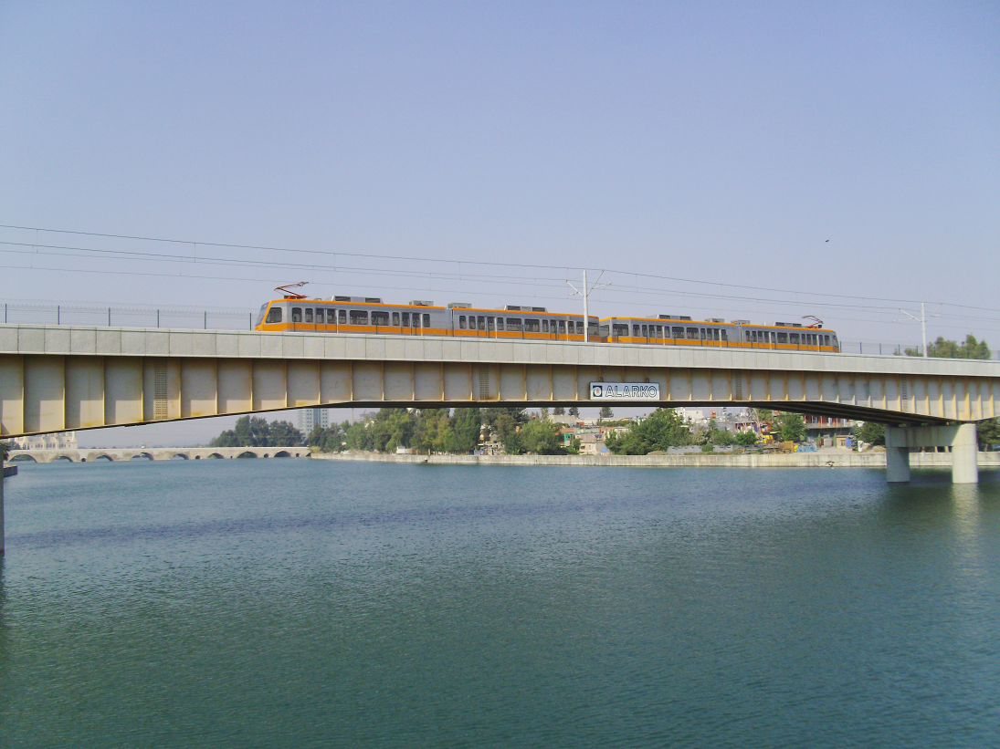 Close view of the mettro train crossing Seyhan River